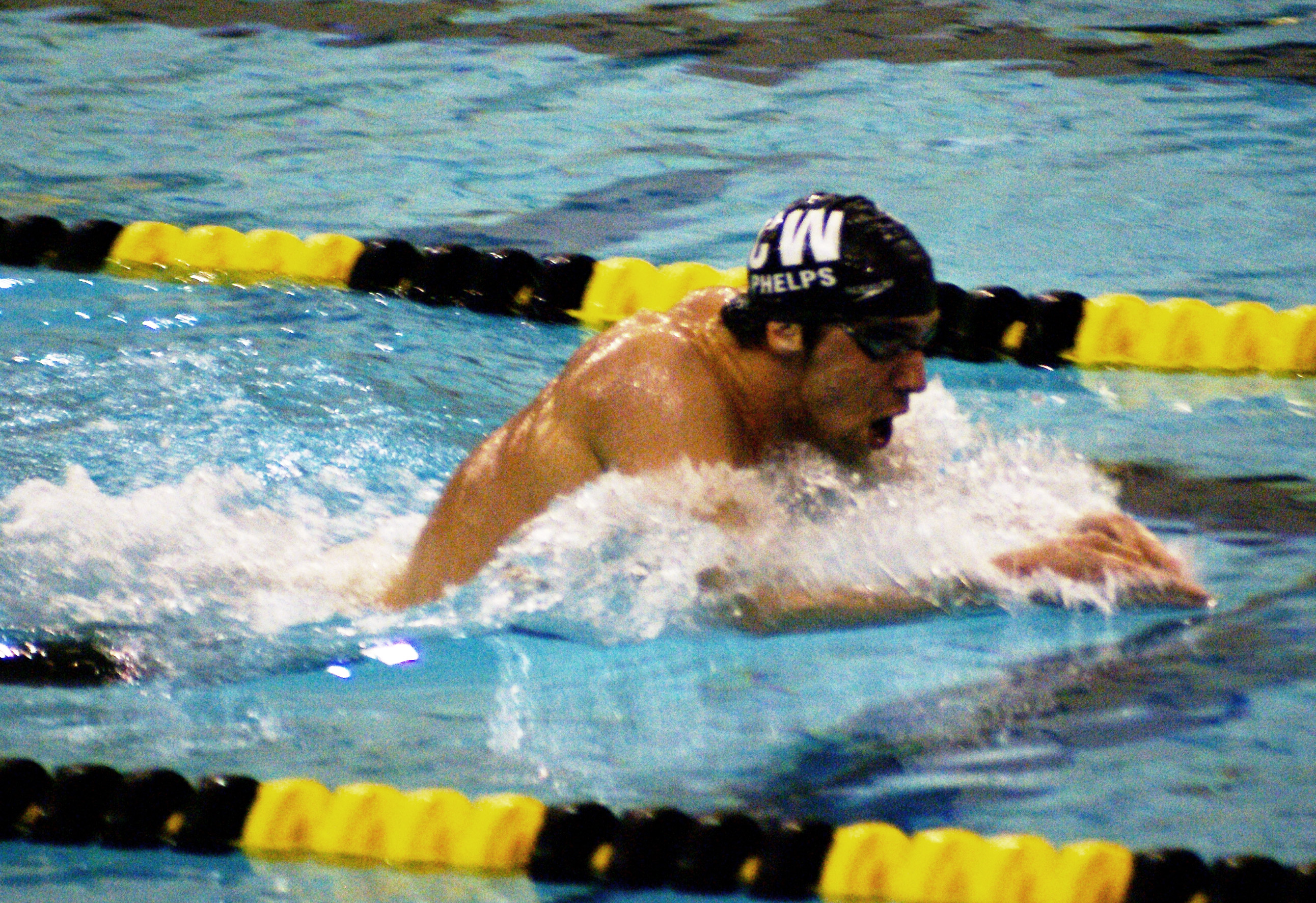 World record holder and olympic gold medalist Michael Phelps in the 400 IM.